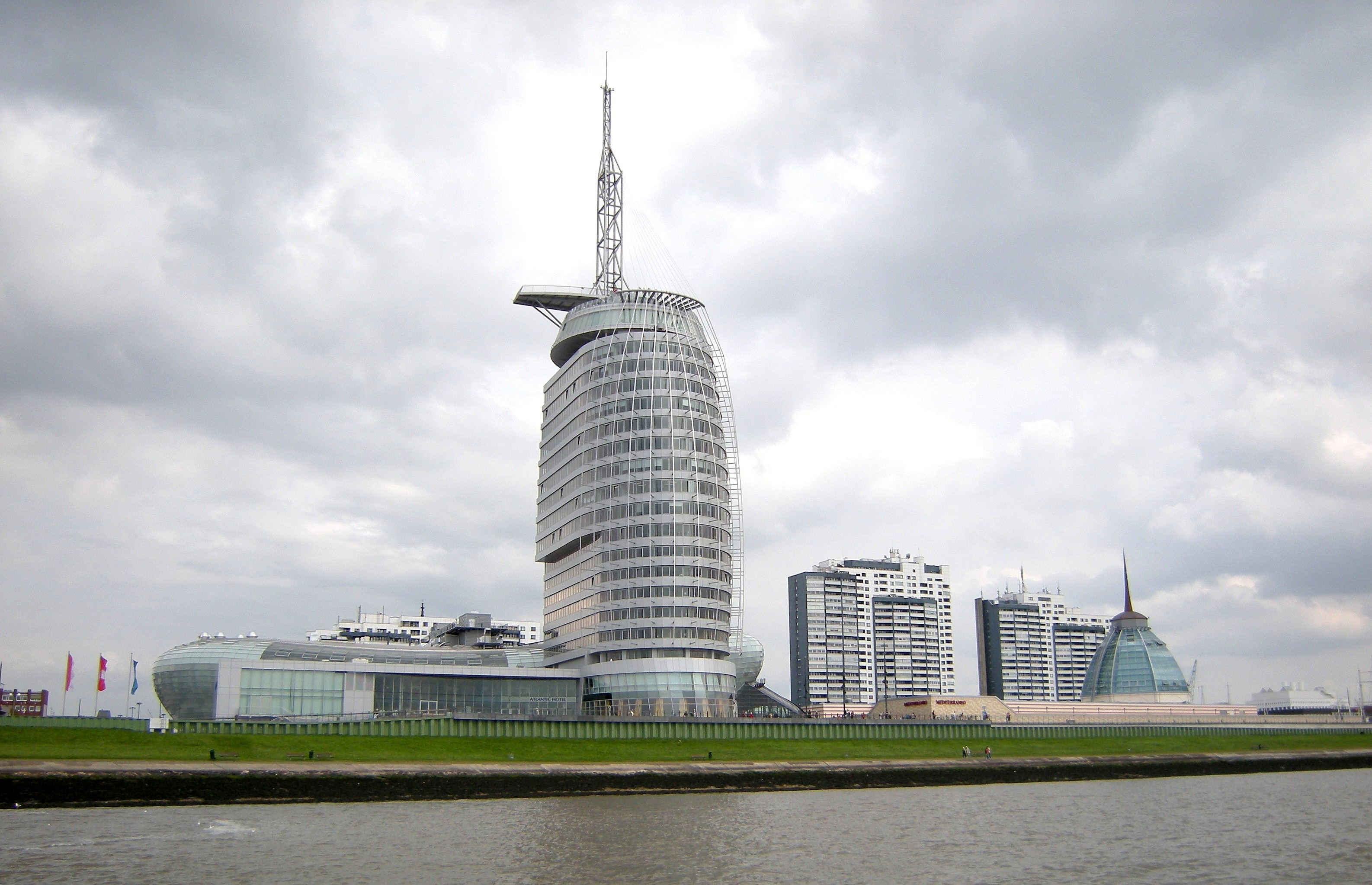 Skyline Bremerhaven